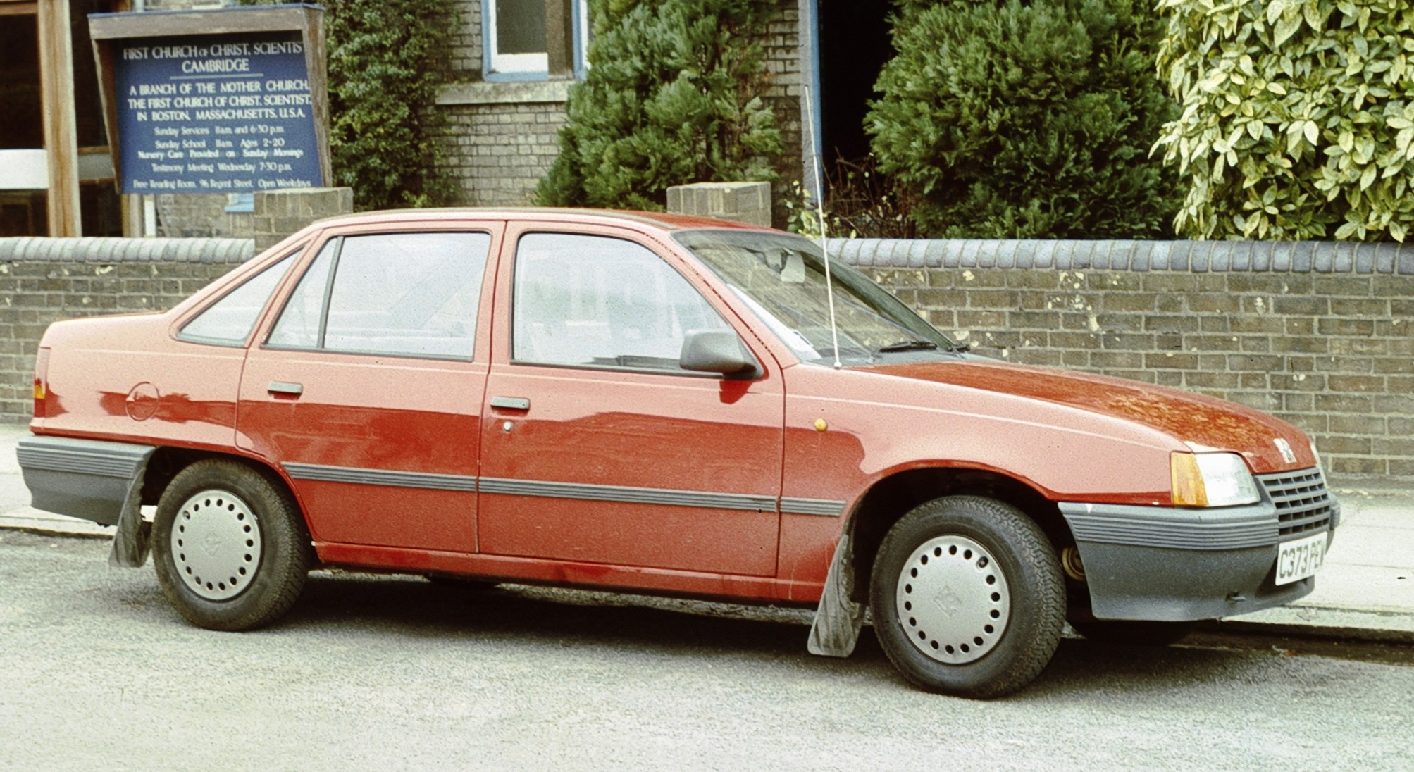 Vauxhall Belmont outside a Christian Scientists' church in Panton Street in Cambridge